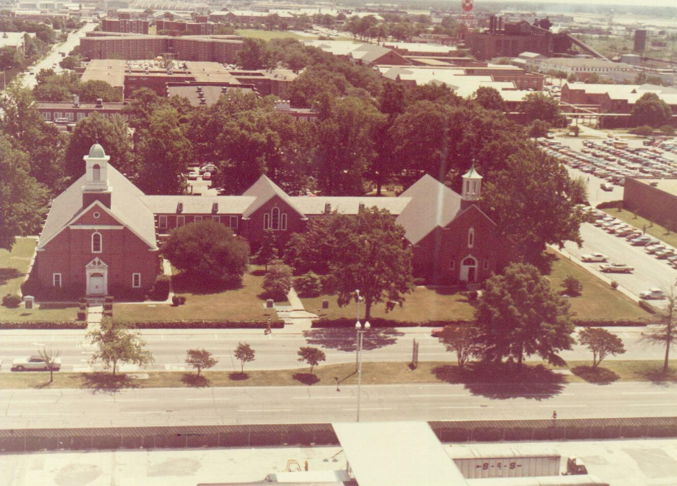 Aerial photo of Frazier Hall, Naval Station Norfolk, Norfolk, Virginia. Frazier Hall is the chapel complex for the base, housing separate Protestant, Catholic, Jewish, and Muslim chapels: Protestant: David Adams Memorial Chapel; Catholic: Our Lady of Victory Chapel; Jewish: Commodore Levy Chapel; Muslim: Masjid al Da’wah Chapel/Mosque